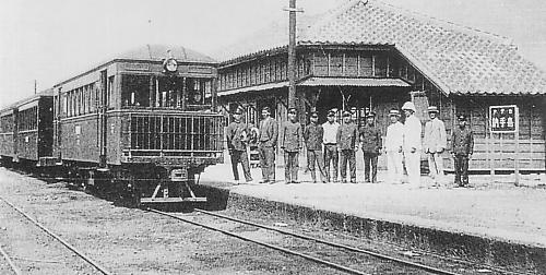 Kadena Station of Okinawa Prefectural Railways